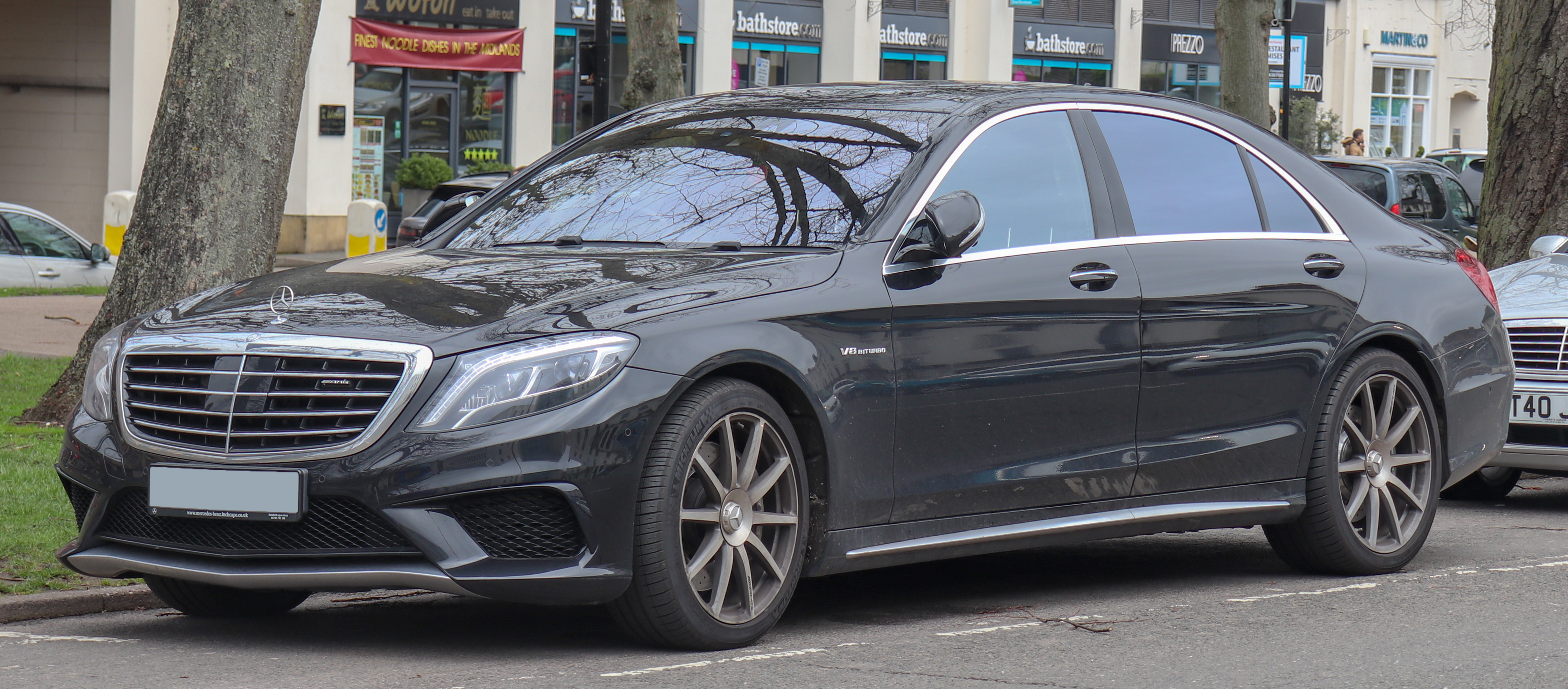 2016 Mercedes-Benz AMG S 63 L Executive Automatic 5.5 Front Taken in Leamington Spa